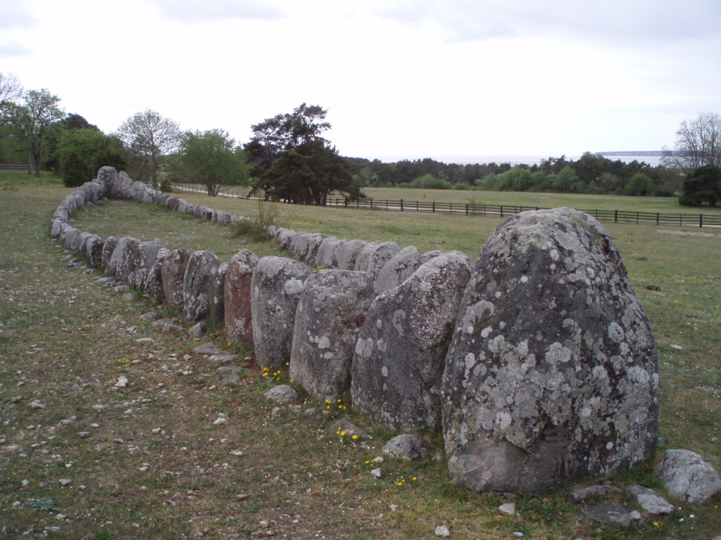 Gannarve stone circle with a view of the Baltic Sea and Lilla Karlsö in the background.